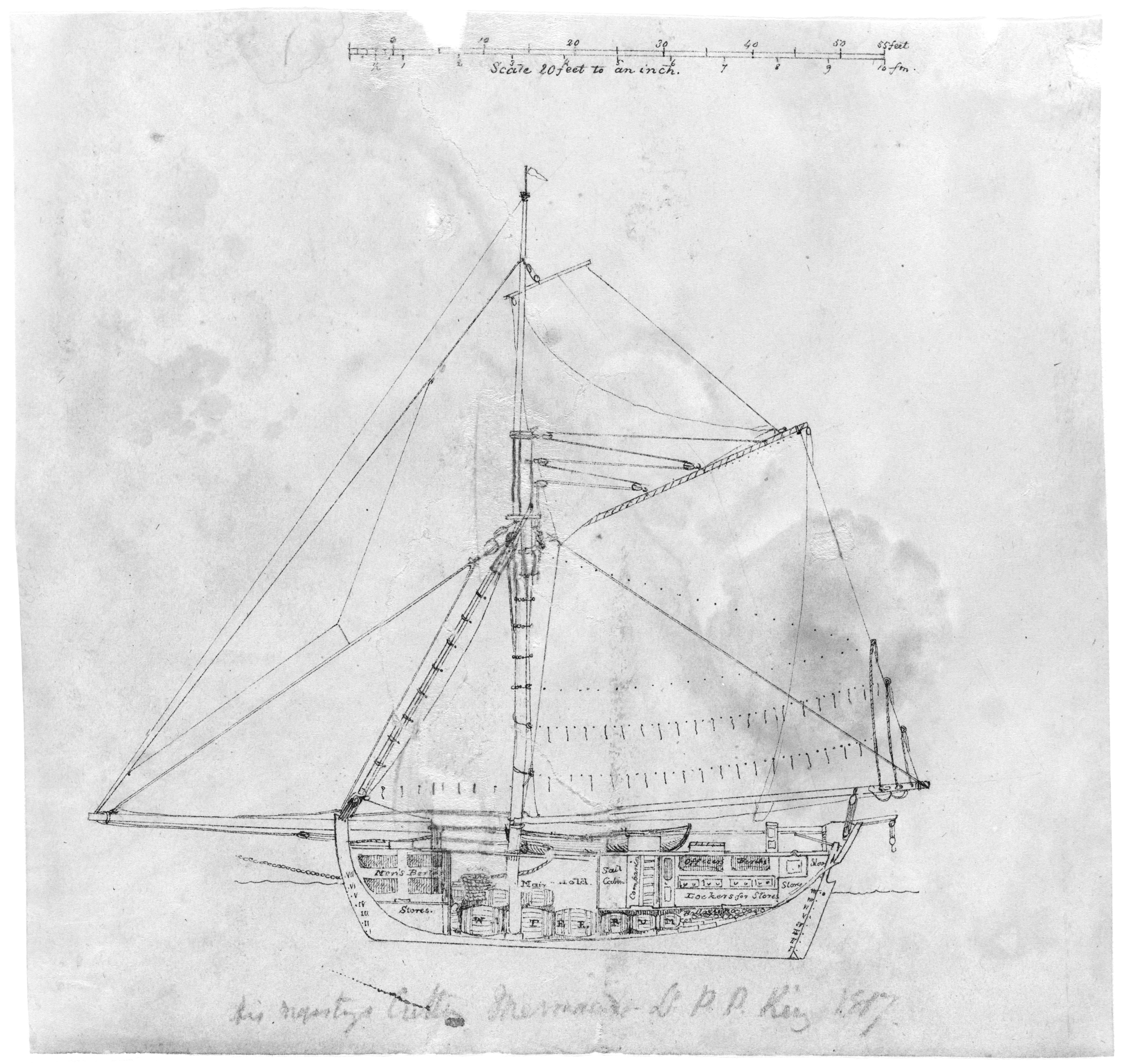 Title: Mermaid (ship) Author/Creator: Unidentified Subjects: ships; Mermaid (Ship) Conditions of use: You are free to use this image without permission. Please attribute State Library of Queensland. Publisher: John Oxley Library, State Library of Queensland Is Part Of: Accession number: D5-1-91 Date: Undated Summary: King's survey ship 'Mermaid' travelled northward from Sydney in 1819 on a journey to the Torres Strait. While navigating the inner route between the Great Barrier Reef and the mainland, King added much to the information recorded by Cook and Flinders. For many years this passage was known as King's Route and his sailing directions for it were much esteemed. King discovered the Liverpool River and Cambridge Gulf. In 1823, the ship was used on Oxley's journey when the Brisbane River and the Tweed River were discovered. Archaeologist believe they have found the wreck of the Mermaid, missing for 180 years on Flora Reef off Cairns. (Information taken from Courier Mail, 7 January 2008, p.4) Description: Digital format: image/jpeg ; Original format: copy print : b&w Identifier: Negative number: 109521 Rights: Out of copyright. For further information Record number: 108136 Link to digital item: Link to this record